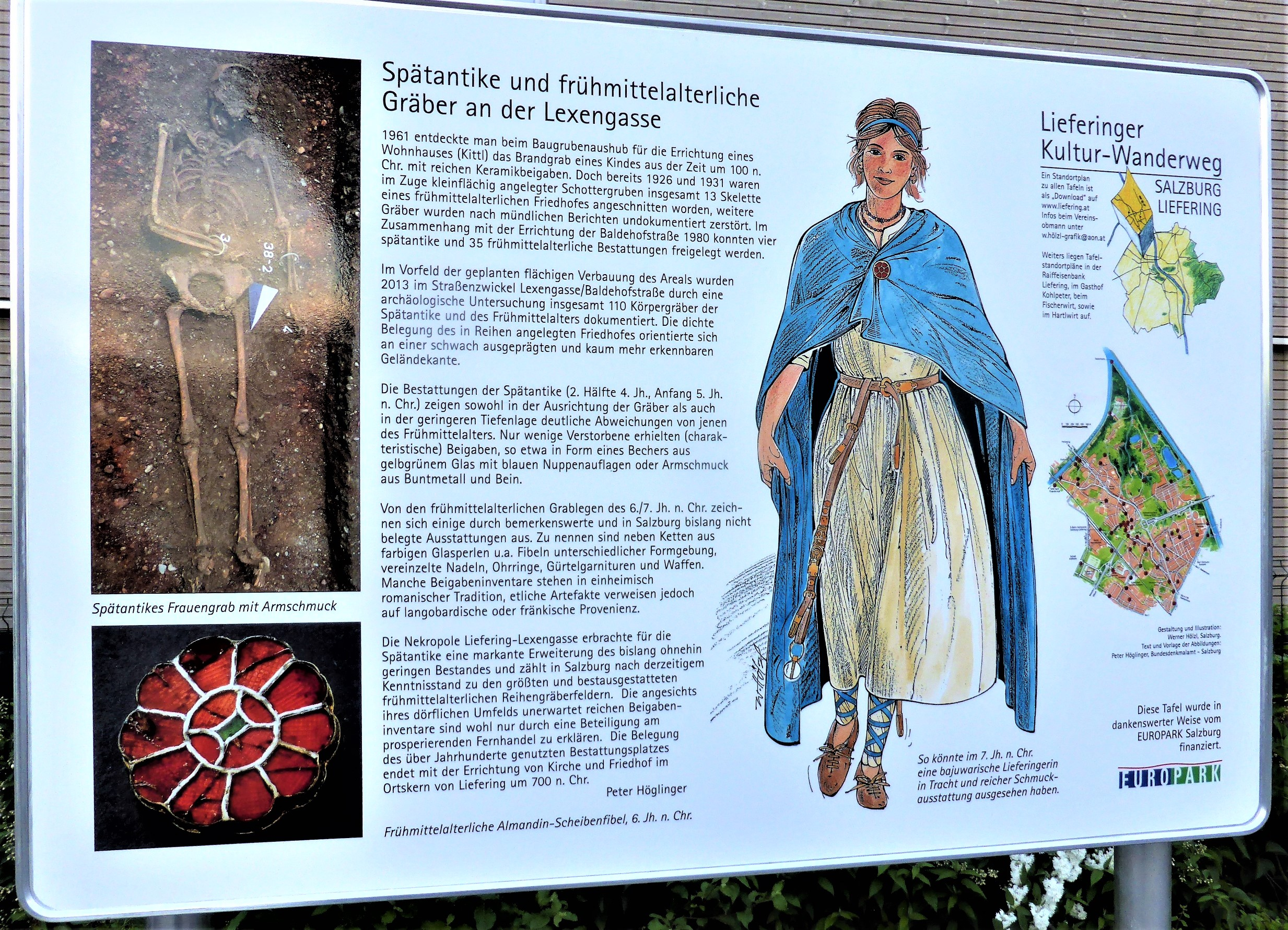 Liefering Cultural Trail - Chart 9 Roman an early Mediaval graves (full Chart)